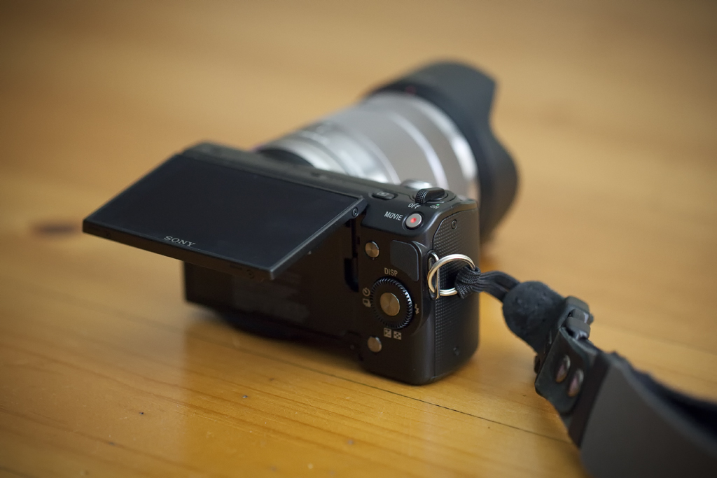 Sony NEX-5 with 18-55/3.5-5.6 lens.